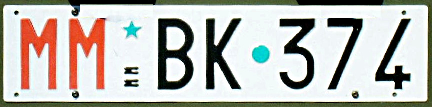 License plate of the Italian Navy (Marina Militare)